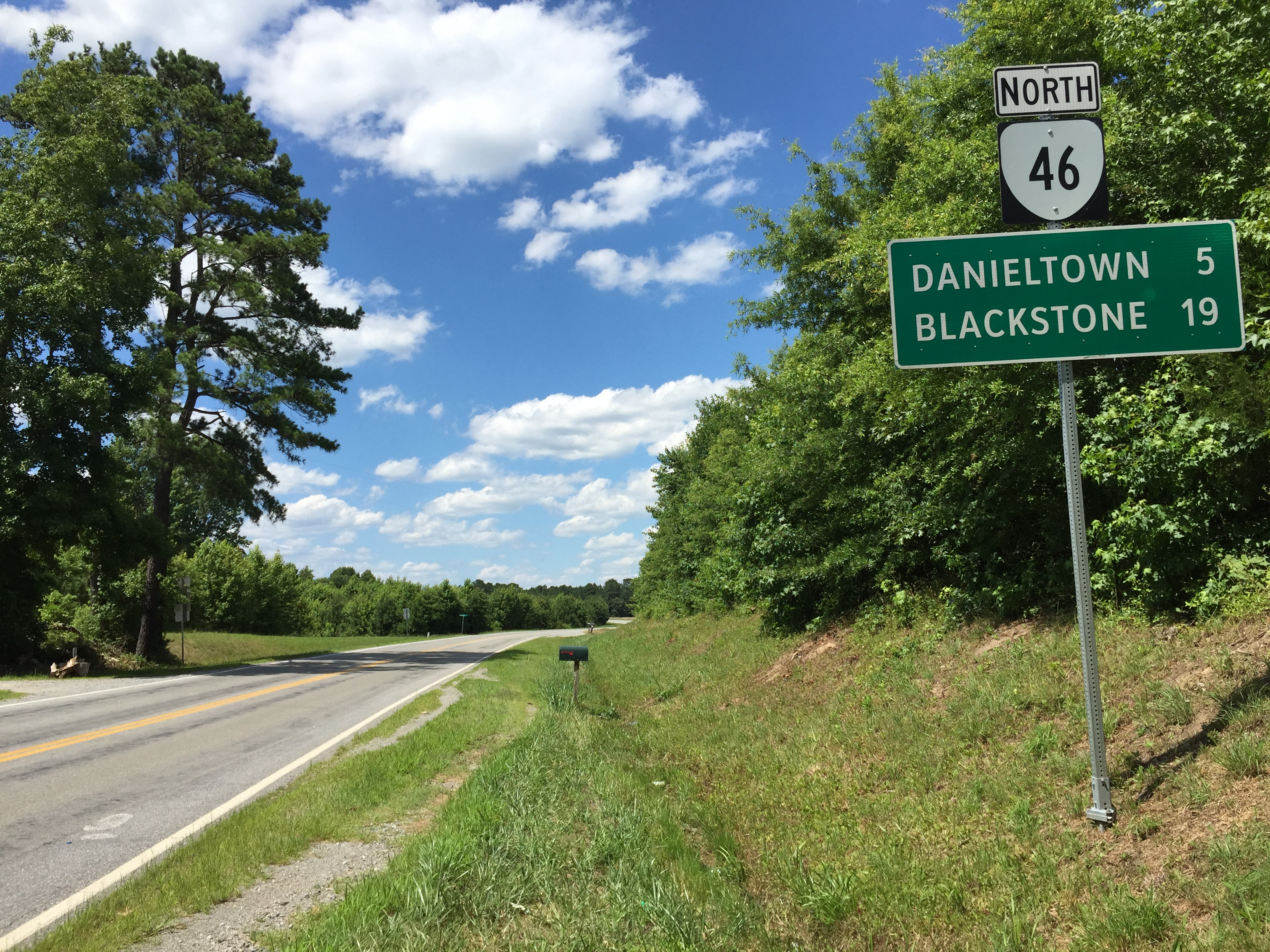 View north along Virginia State Route 46 (Christanna Highway) at Great Creek Road (Virginia State Secondary Route 648) just west of Alberta in Brunswick County, Virginia